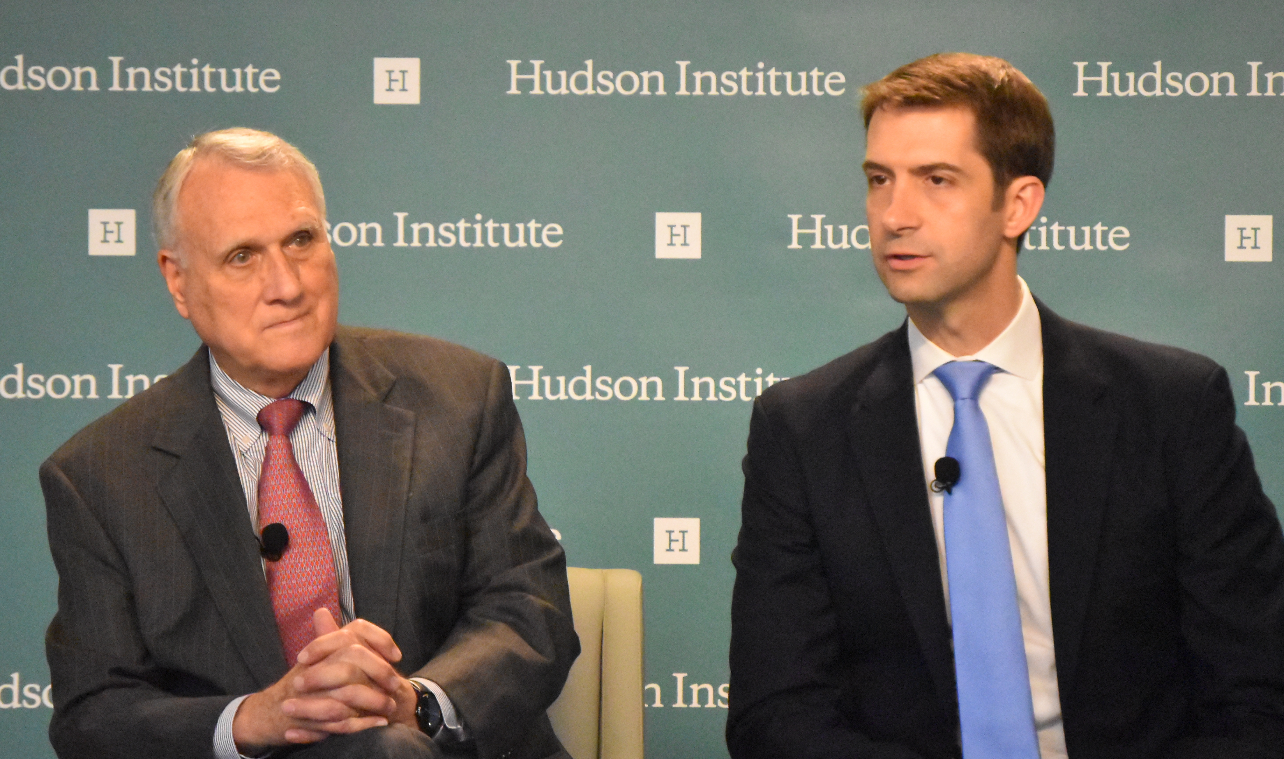 Jon Kyl and Tom Cotton speaking at Hudson Institute on Space and the Right to Self Defense